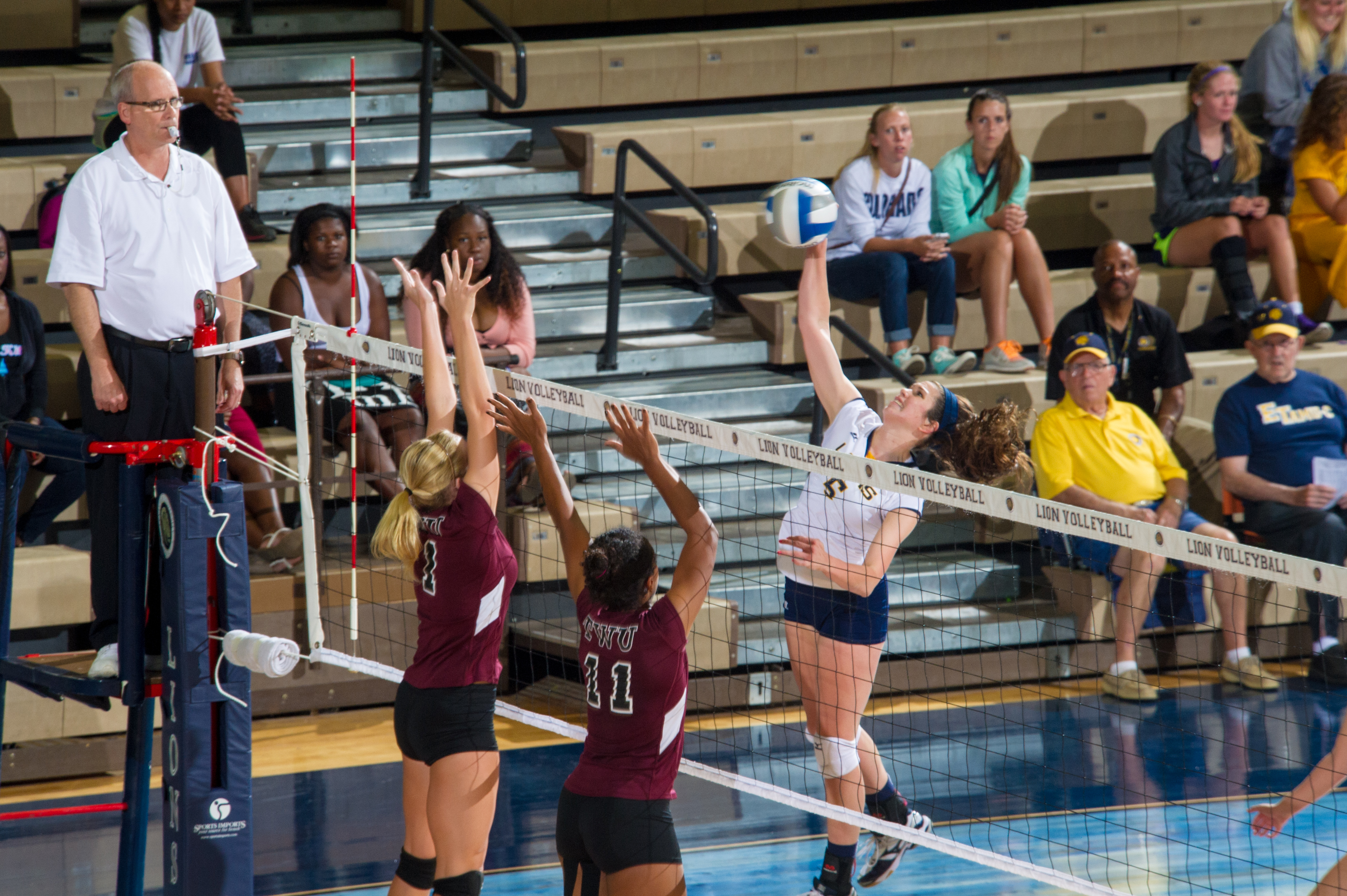 Athletics-Volleyball vs TWU-2398.jpg 2014–15 Texas A&M–Commerce Lions women's volleyball team